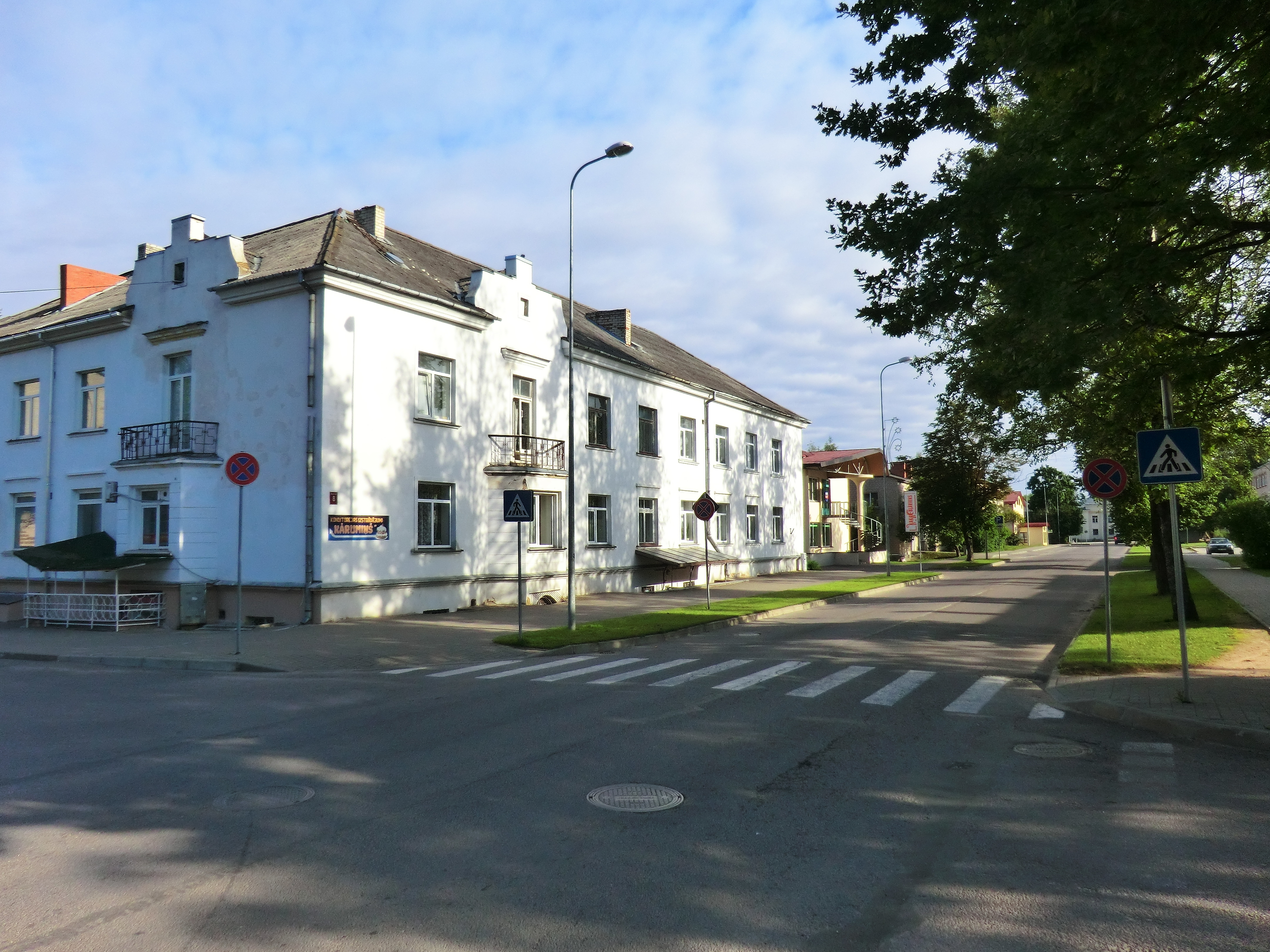 Bērzpils Street in Balvi (Road P47)